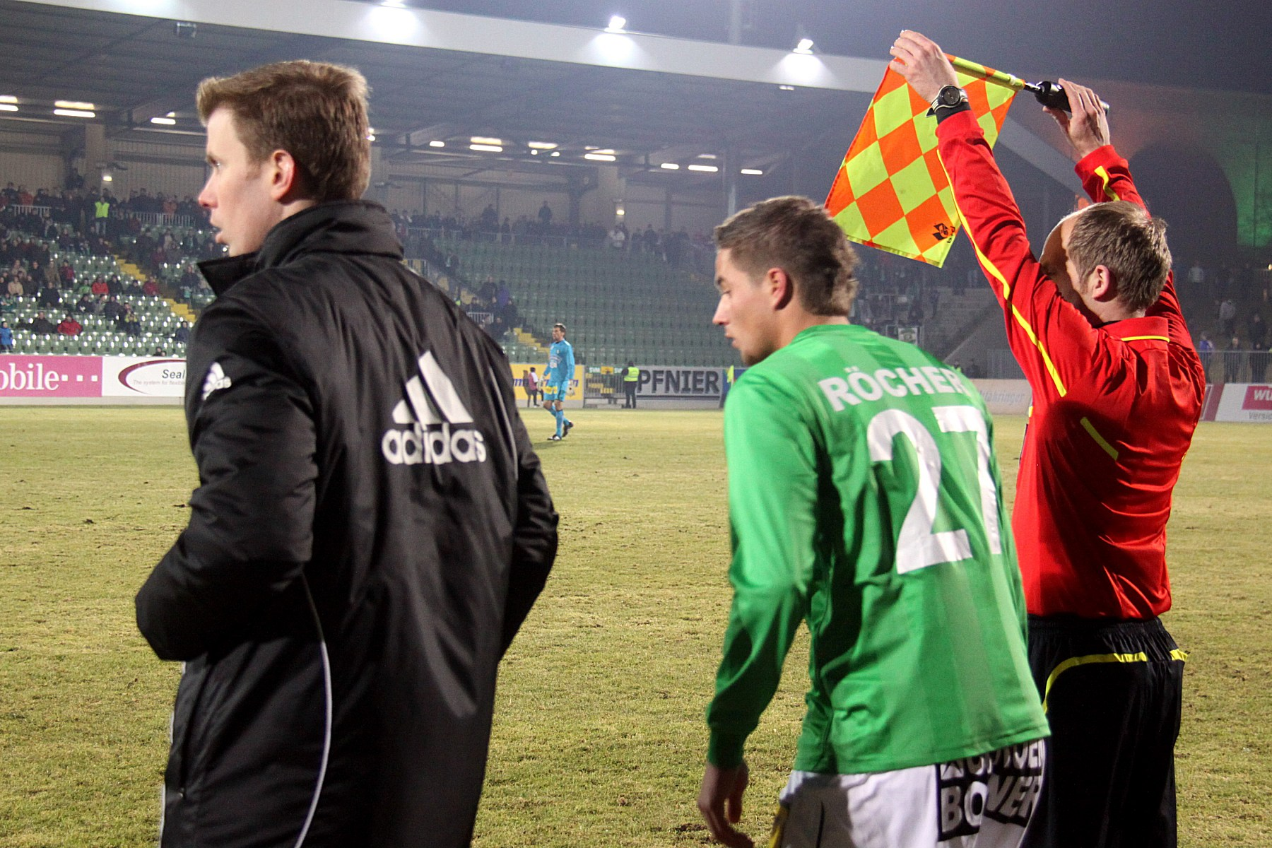 Thorsten Röcher - SV Mattersburg incoming to his 1st match as football-profi